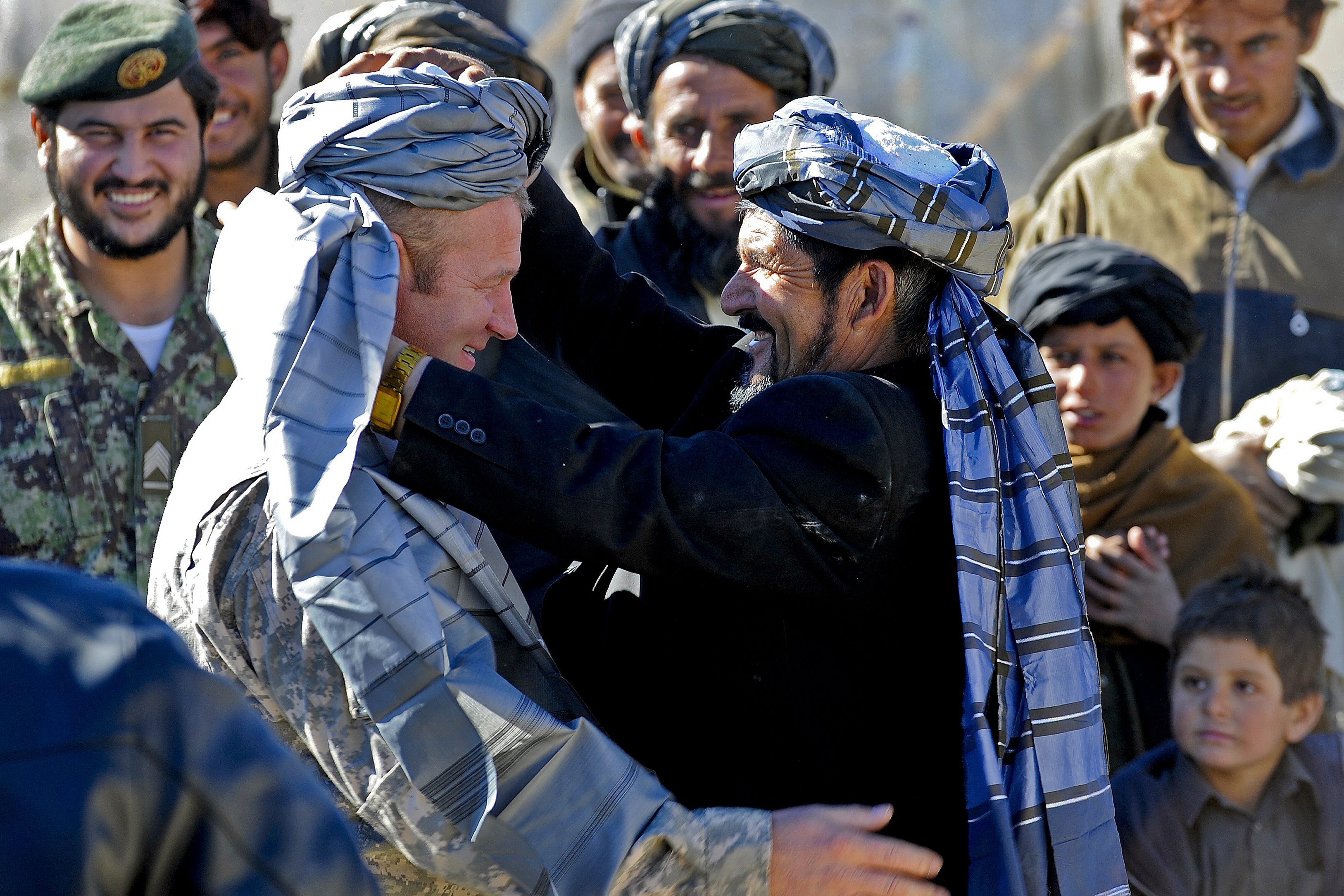 Provincial Reconstruction Team Zabul, Shinkay Detachment Team Lead Maj. Trever Nehls is given a turban by new Shinkay District Gov. Barat Khan during a shura, or meeting, in Shinkay district, Zabul province, Afghanistan, Jan. 6. The Zabul Deputy Gov. Gulab Shah was on hand at the shura to discuss issues and officially announce the appointment of a new district governor. U.S. Air Force photo/Staff Sgt. Brian Ferguson